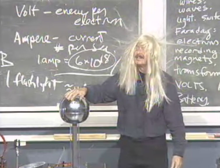 Richard A. Muller demonstrates a Van de Graaff generator during class. Touching the high voltage terminal charges his body to a high voltage. The charge on individual strands of his hair causes them to repel each other, standing out straight away from his head.